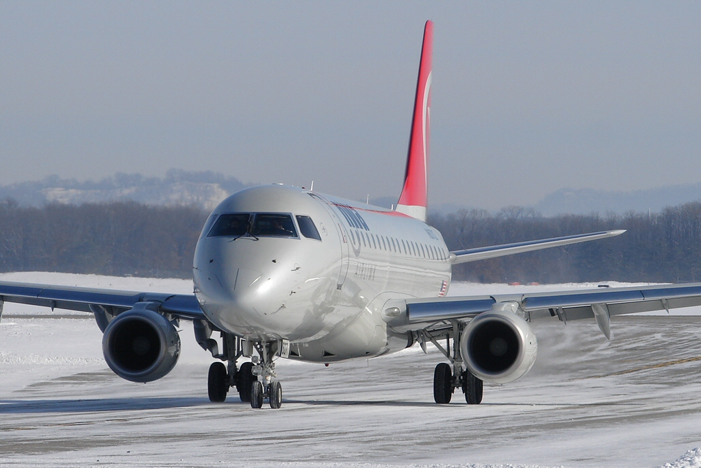 the E-jet crawls to the ramp